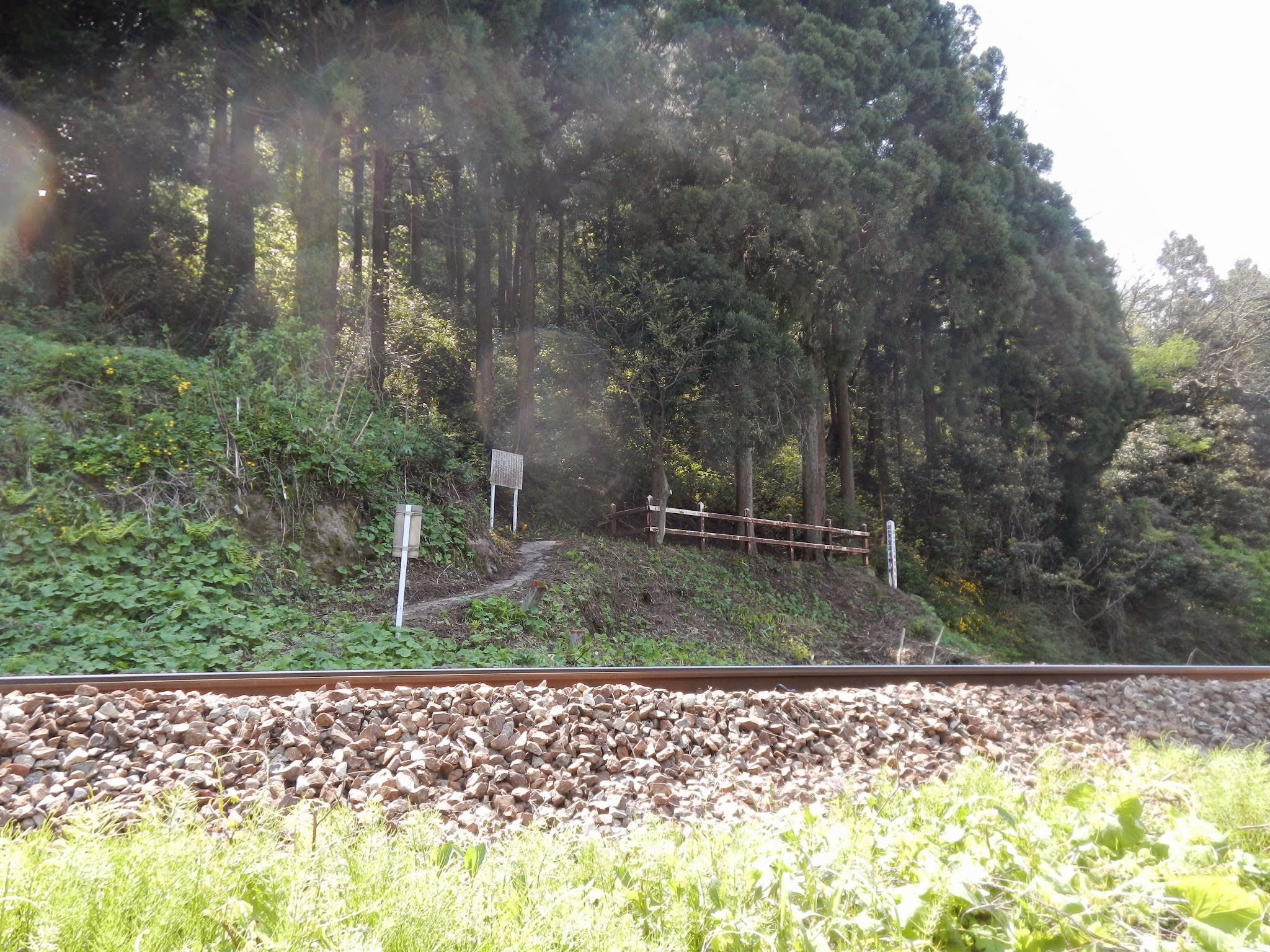 Iwaine, Toyama, Toyama Prefecture 939-2182, Japan